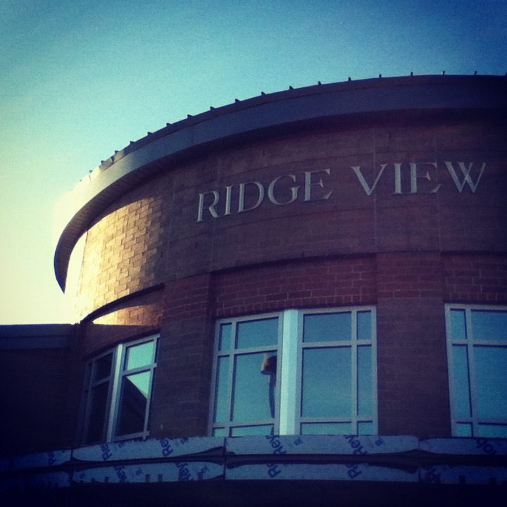 A picture of the front of the school, including the name "Ridge View." It is a picture of a part of the newly build rotunda.